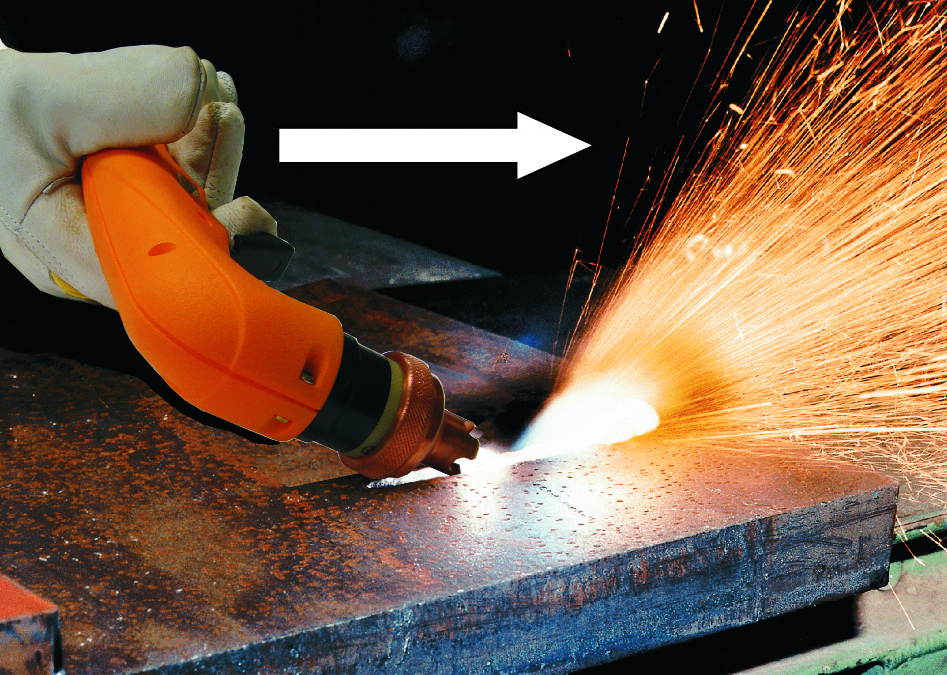 Gouging